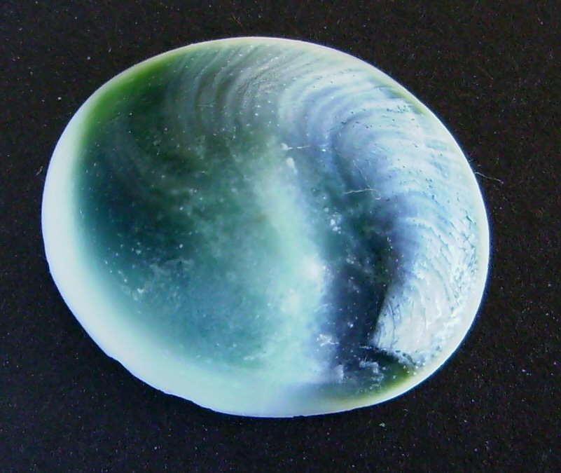 Lunella smaragda (Gmelin, 1791) (synonym: Turbo smaragdus) operculum (cat's eye) from Auckland, New Zealand. This work has been released into the public domain by its author, Graham Bould. This applies worldwide. In some countries this may not be legally possible; if so: Graham Bould grants anyone the right to use this work for any purpose, without any conditions, unless such conditions are required by law.